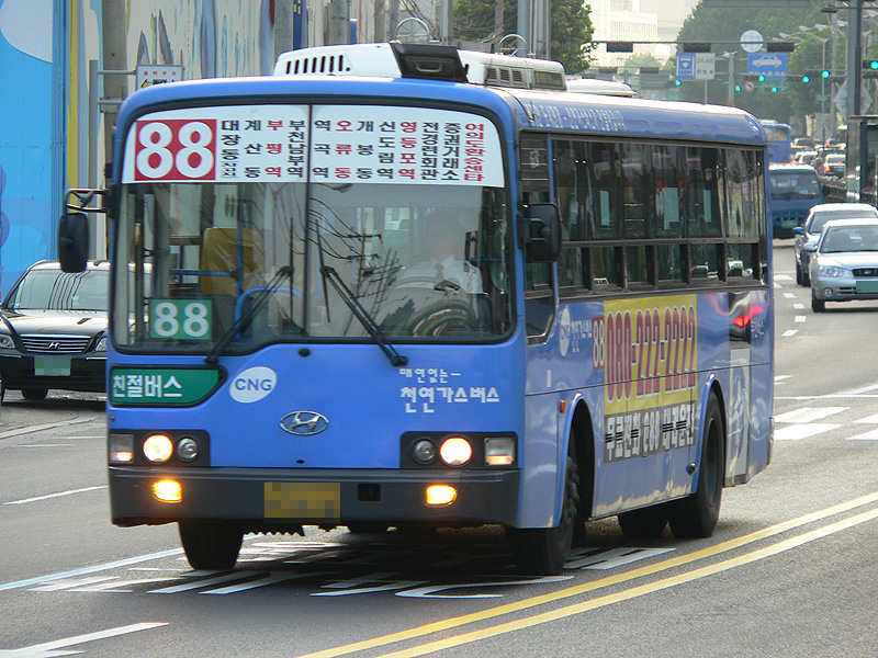 Bucheon City Bus No.88